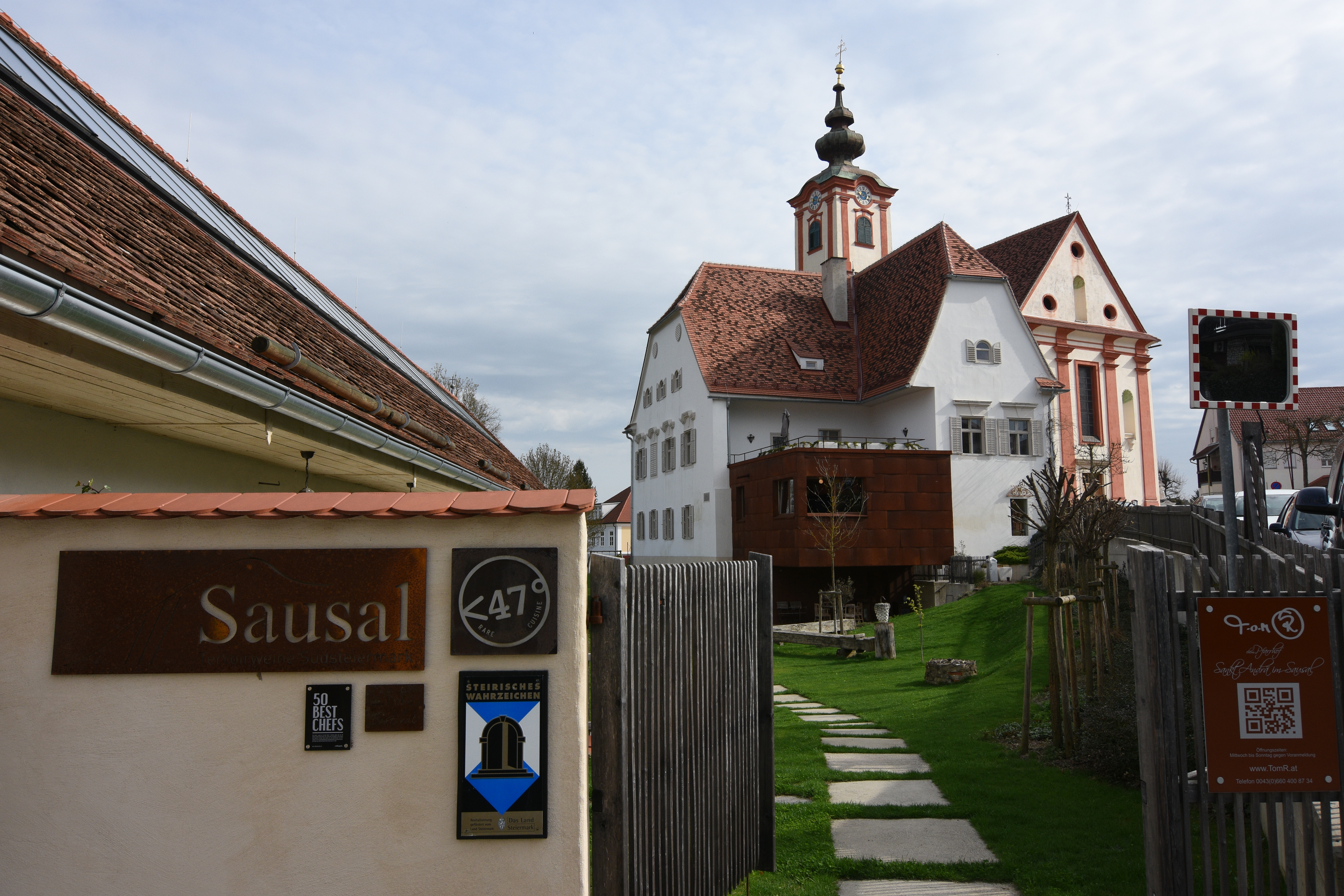 Pfarrhof, St. Andrä im Sausal